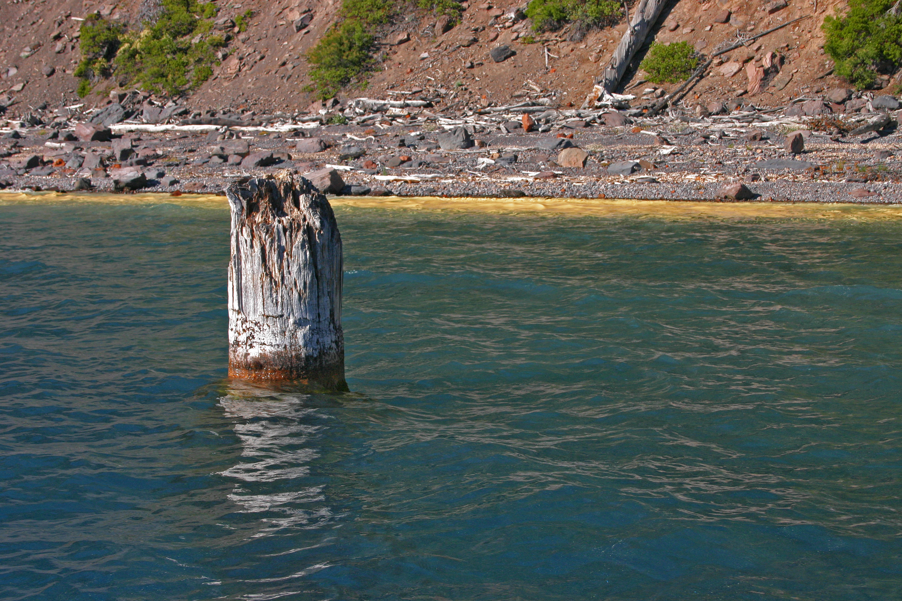 "Old Man of the Lake", Crater Lake National Park